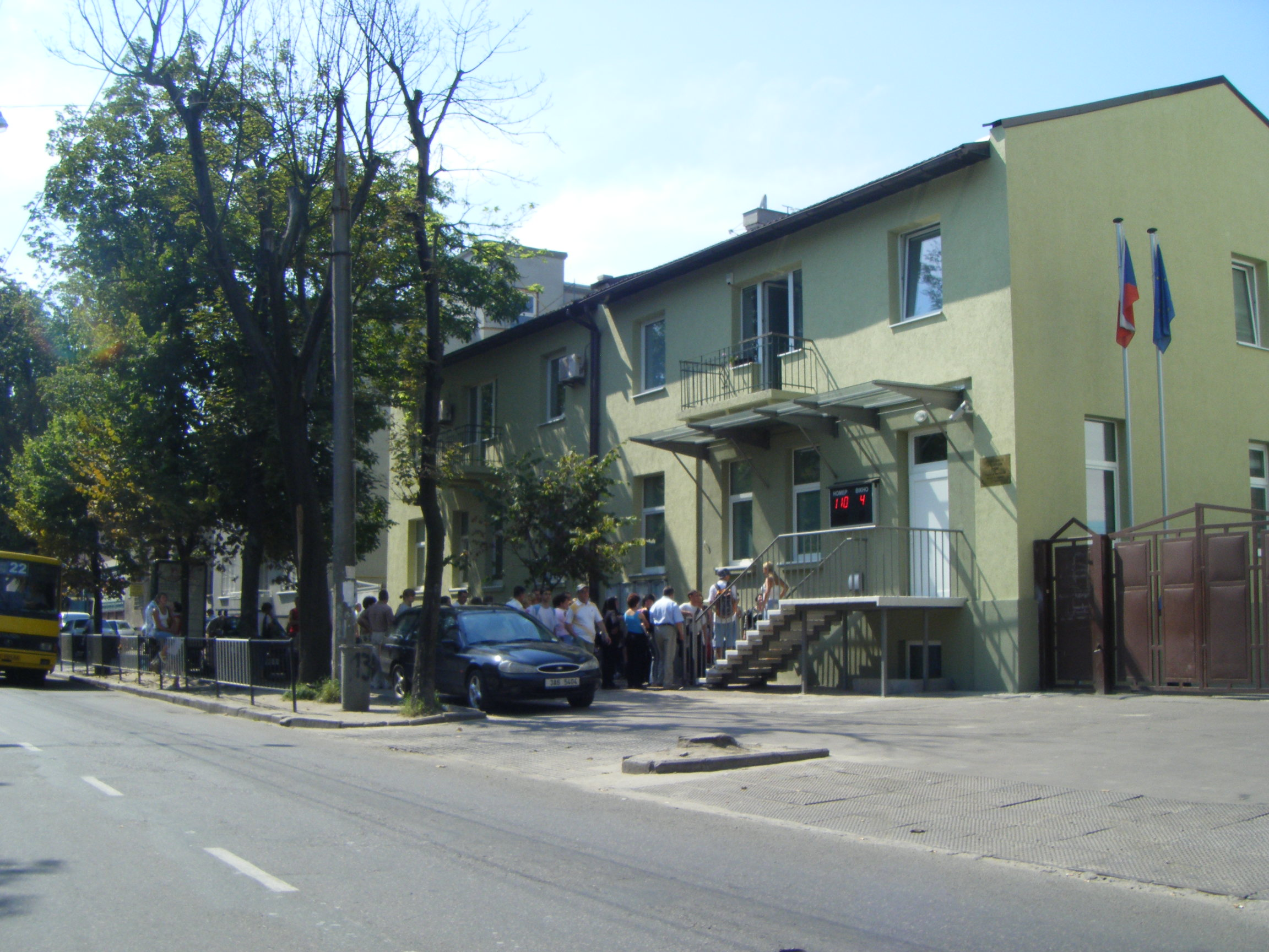 Czech consulate in Lviv, Ukraine. Antonovycha str.